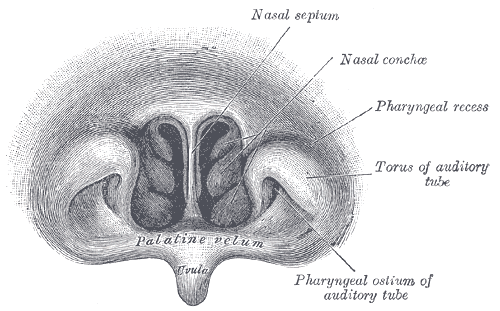 Front of nasa part of pharynx, as seen with the laryngoscope.